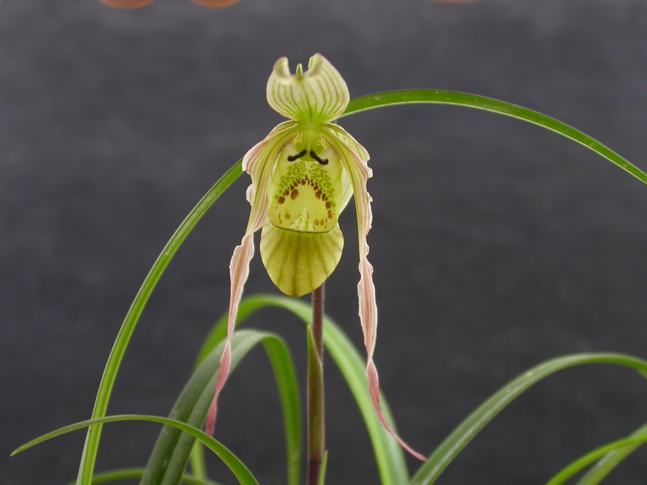 Phragmipedilum_pearcei